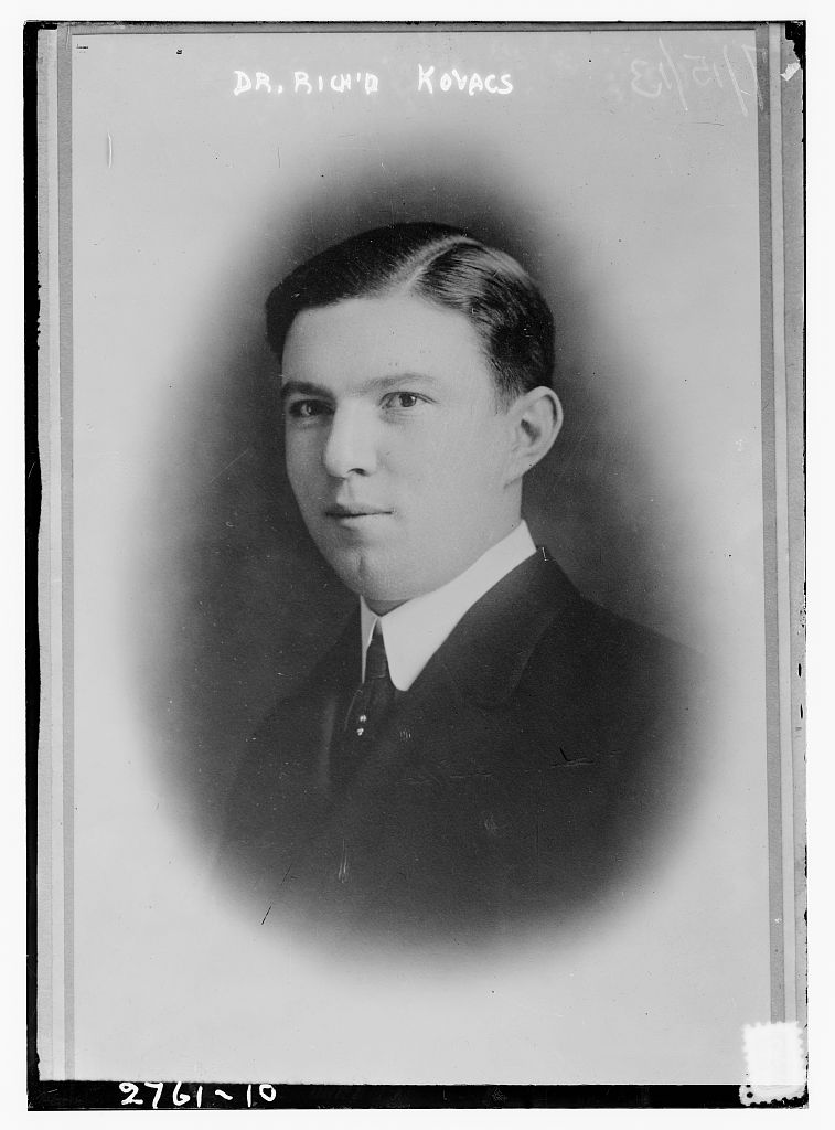 Bain News Service,, publisher. Dr. Rich Kovacs [no date recorded on caption card] 1 negative : glass ; 5 x 7 in. or smaller. Notes: Title from unverified data provided by the Bain News Service on the negatives or caption cards. Forms part of: George Grantham Bain Collection (Library of Congress). Format: Glass negatives. Repository: Library of Congress, Prints and Photographs Division, Washington, D.C. 20540 USA, General information about the Bain Collection is available at Persistent URL: Call Number: LC-B2- 2761-10